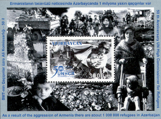 Stamp of Azerbaijan